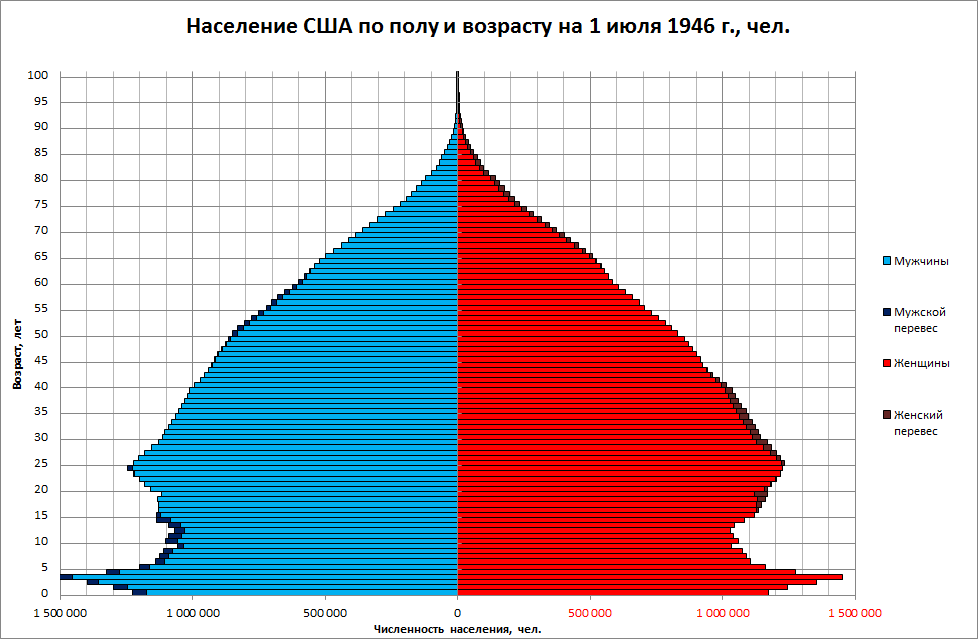 Демографическая пирамида США в 1946 г.